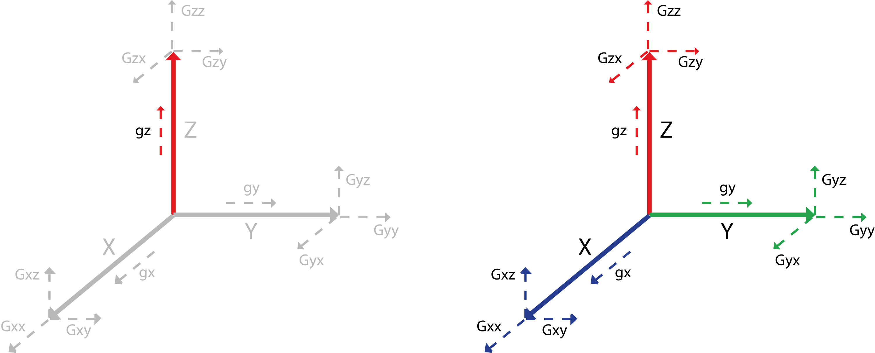 Tensors of Gravity and Gravity Gradiometry